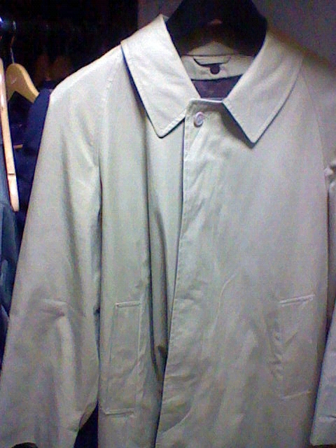 One kind of Ball color coat and overcoat